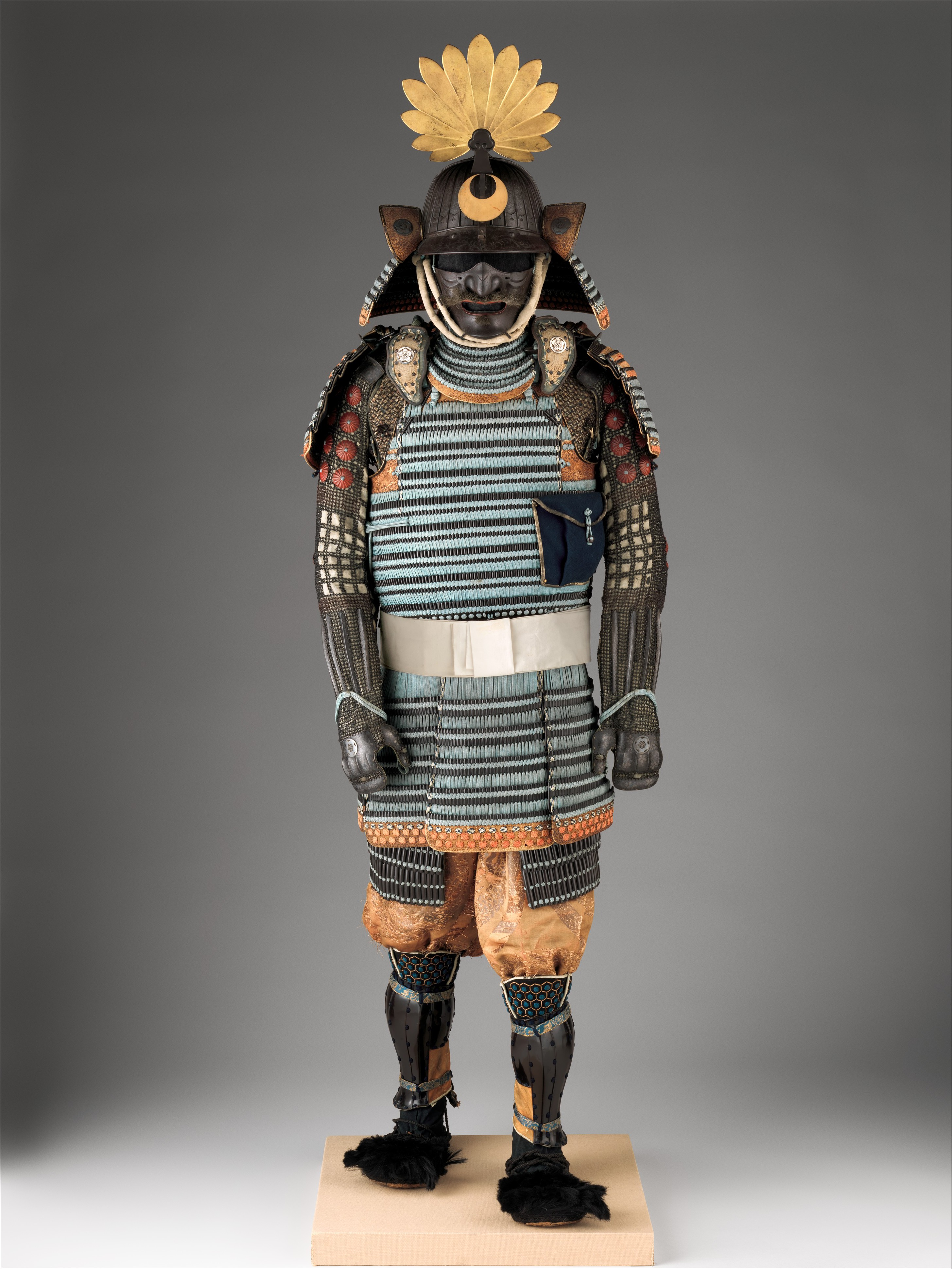 Japanese; Armor (Gusoku); Armor for Man